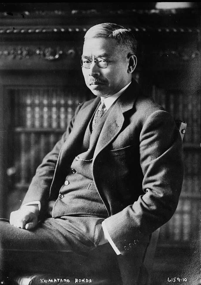 Kumatarō Honda (本多熊太郎)